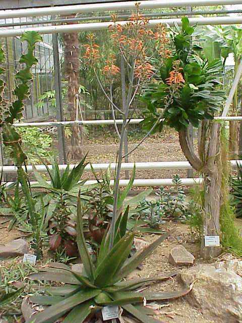 Species: Aloe lateritia Family: Asphodelaceae Image No. 2